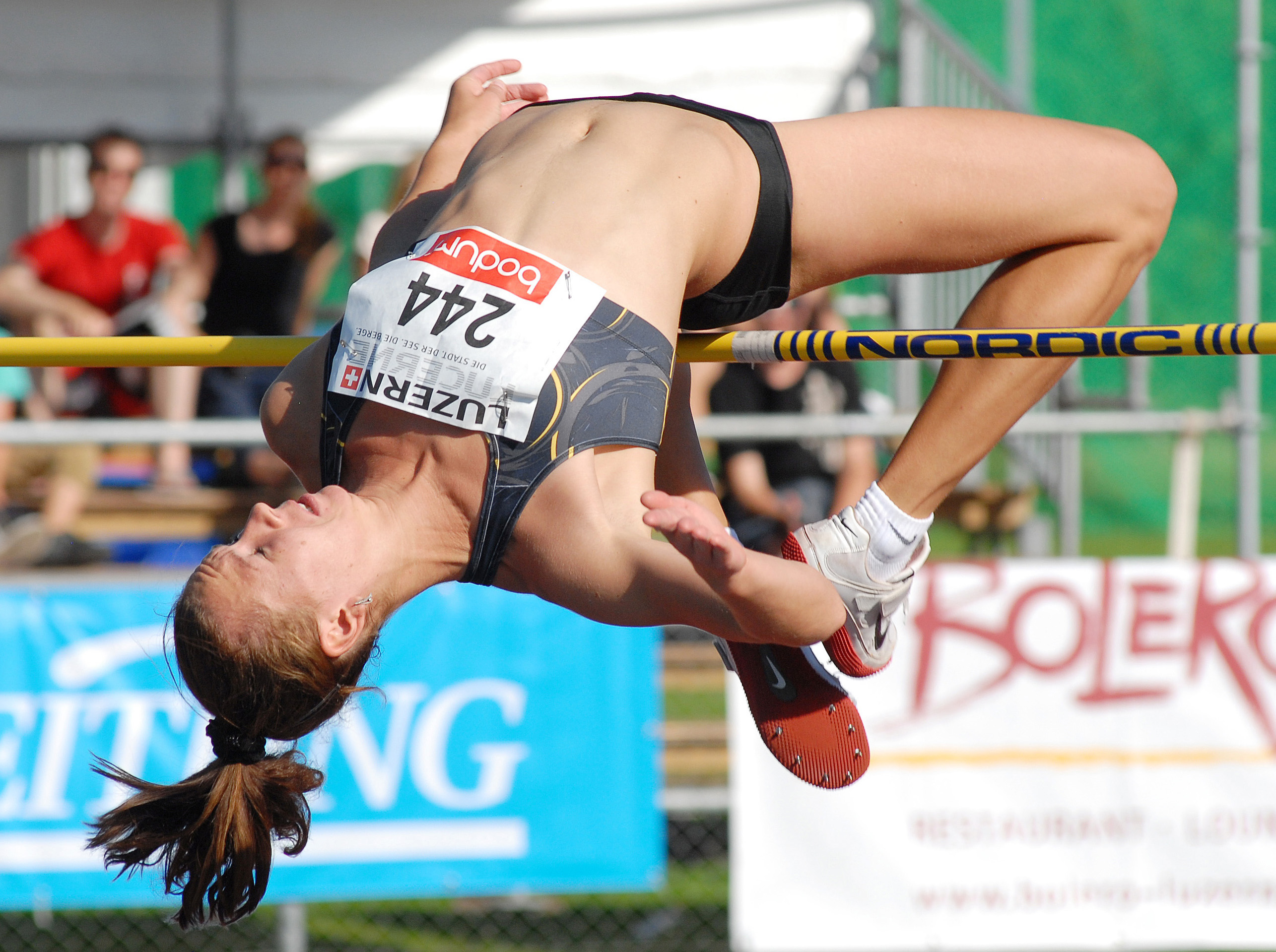 Oksana Okuneva at "Spitzen Leichtathletik Luzern, Lucerne", 2012, Switzerland